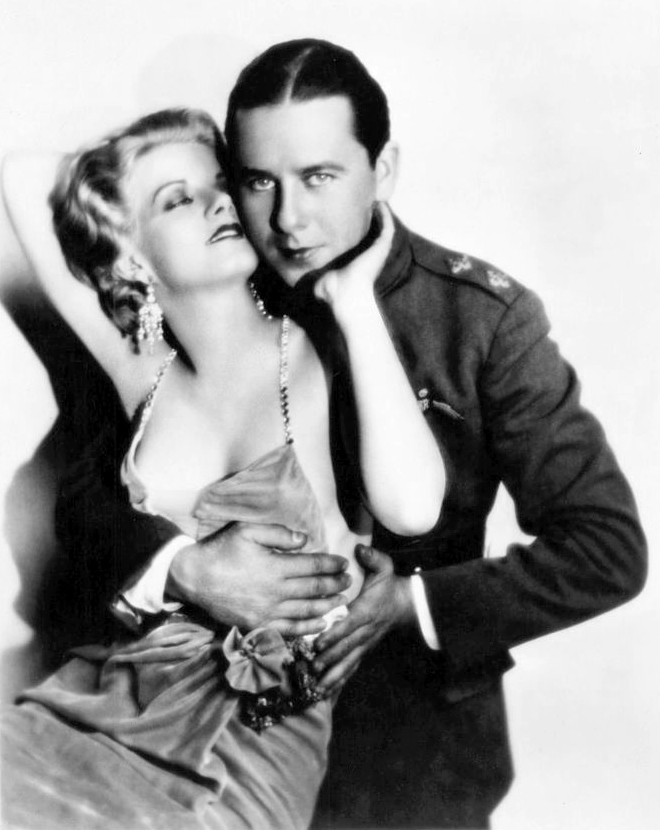 Promotional photograph for the film Hell's Angels starring Jean Harlow and Ben Lyon